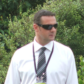 Former New Zealand cricketer Simon Doull, in his role as a sports broadcaster. photographed at the University Oval, Dunedin, January 2008 by User:Grutness